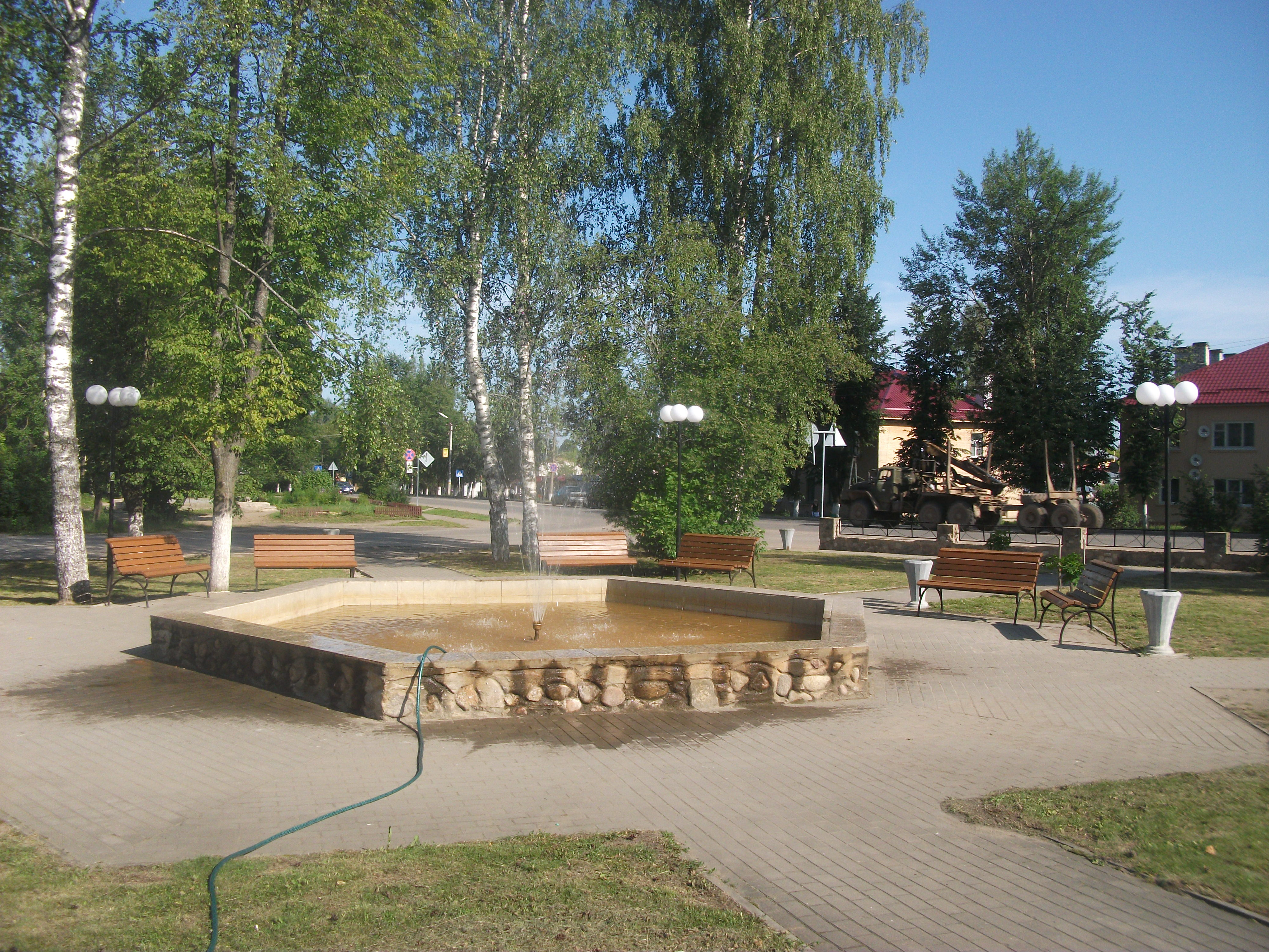 Lenin's St.. Pliyssa. Pskov Region